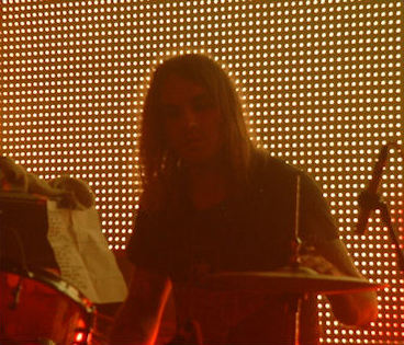 2007-09-25 Austin, TX - La Zona Rosa Taken by myself (Liz Berry) (I'm sorry if I do the copyright thing wrong.. I'm not sure what to put)